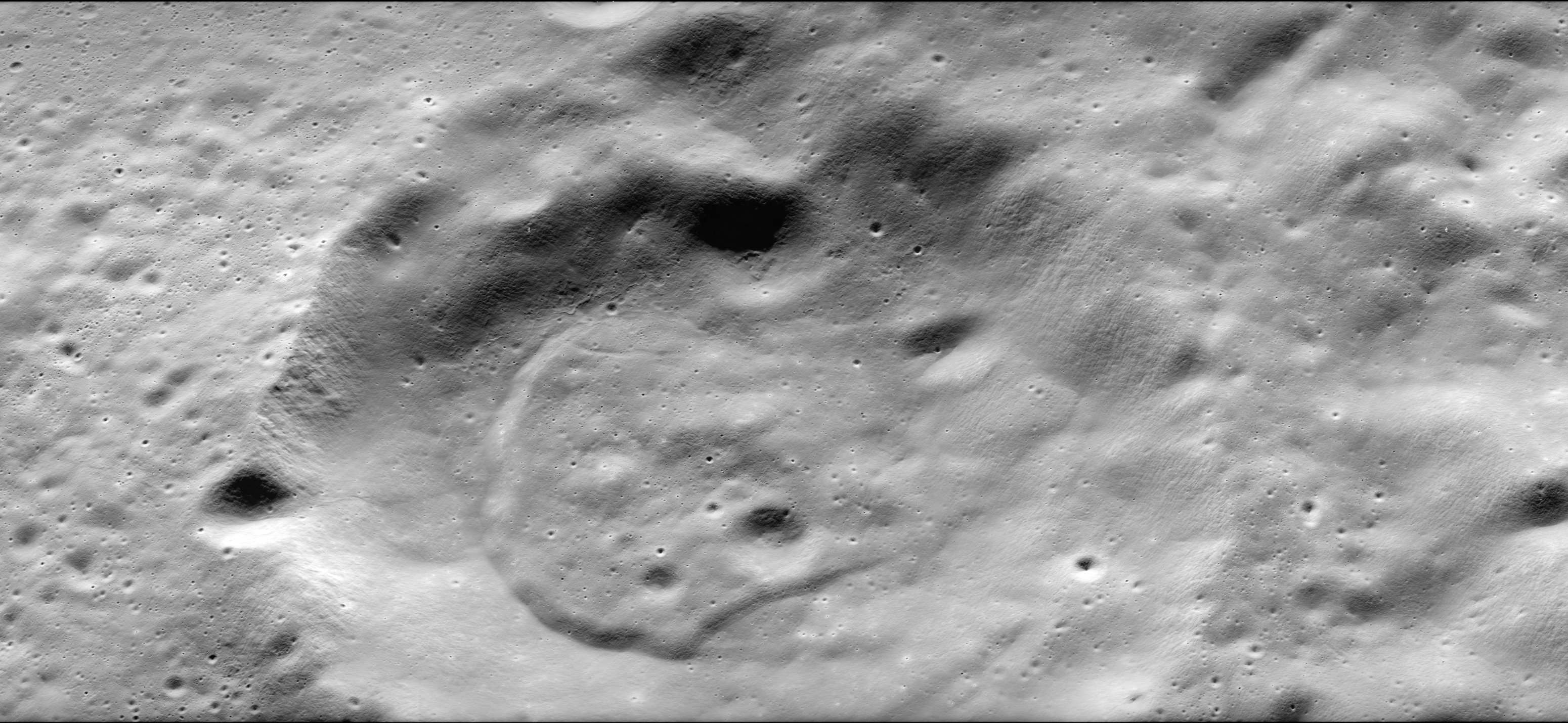 Oblique view of Litke, facing west, on the moon.